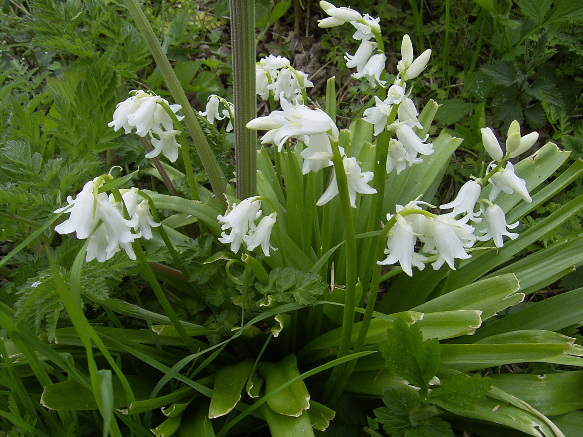 This pic shows the Hyacinthoides × massartiana with white flowers. I took the pic in the dunes of Scheveningen, Netherlands.